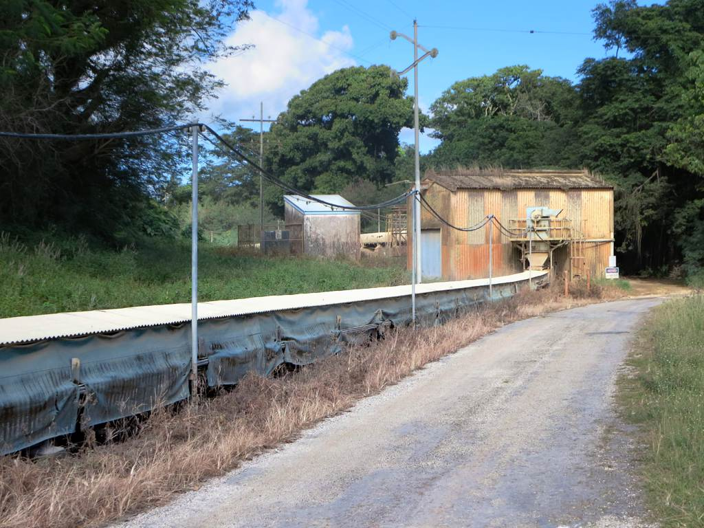 A conveyor belt carries phosphate rock through Drumsite toward the wharf on Christmas Island, Australia.